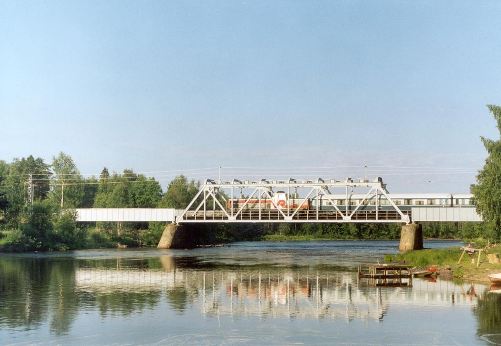 Southbound passenger train P80 from Rovaniemi to Helsinki crosses the Kiiminki River (Kiiminkijoki) railway bridge near Haukipudas railway station in Finland.